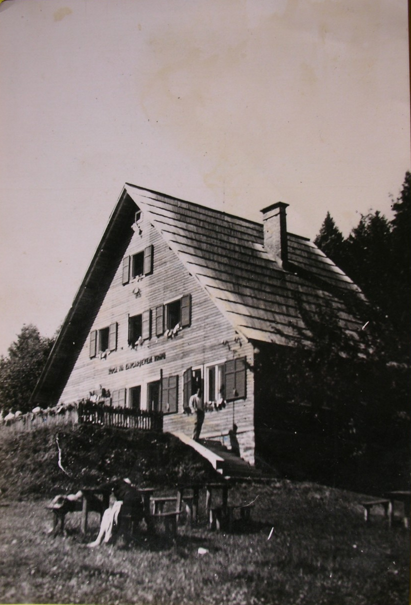 Postcard of Koča na Žavcarjevem vrhu.